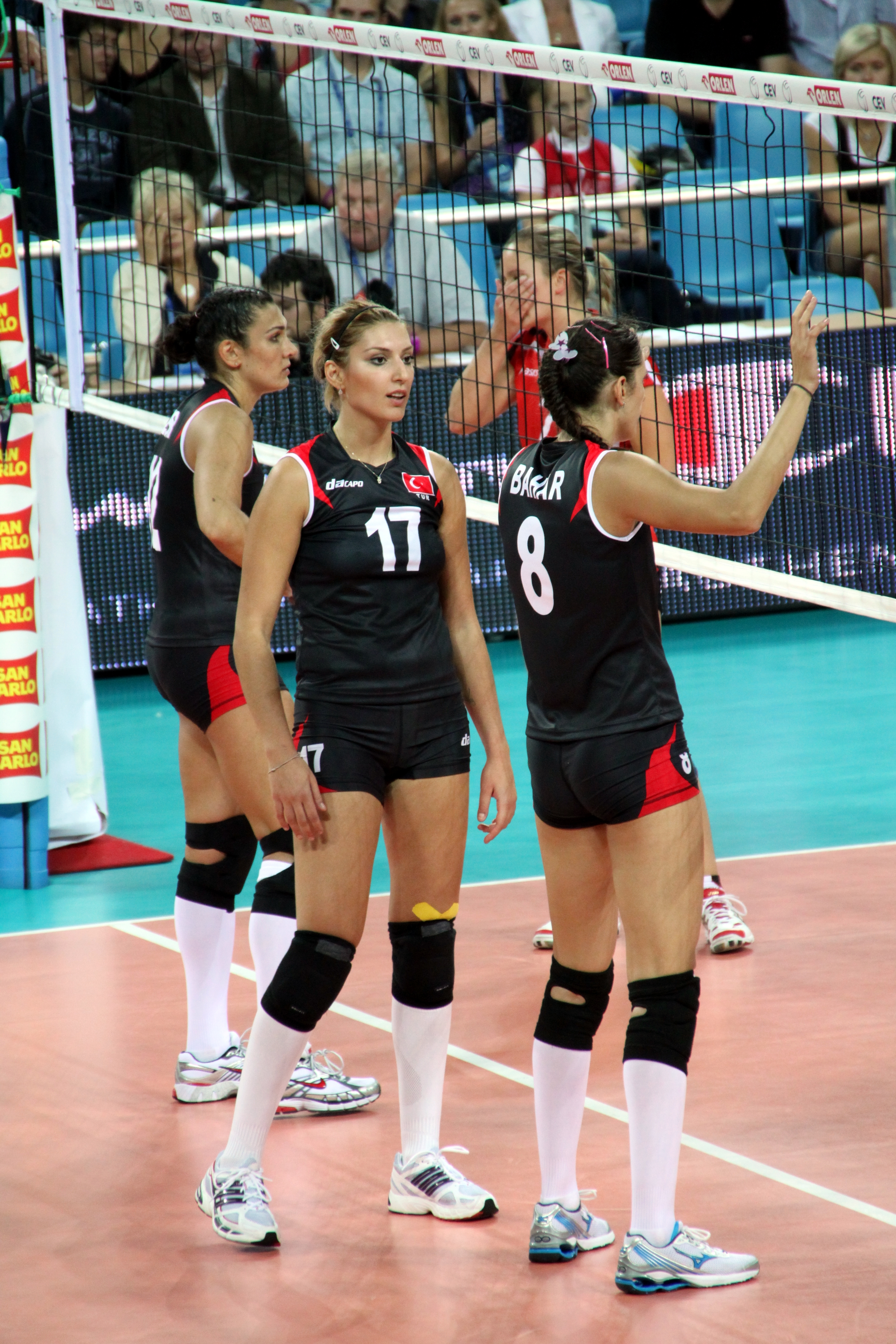 Turkish volleyball players Gümüş Esra (12), Demir Darnel Neslihan (17) and Toksoy Bahar (8) during the game between Germany and Turkey for the European Championship of Women's Volleyball 2009 in Poland... [Germany 3:2 Turkey, Wroclaw, Poland, 27.09.2009] Germany 3:2 Turkey